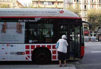 bus stopped